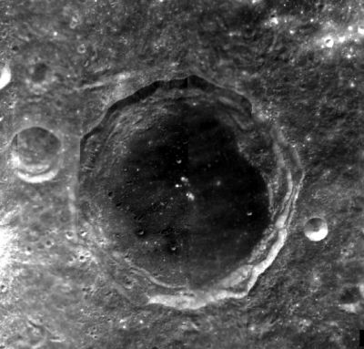 Clementine Greyscale Basemap: Mercator projection created by Map-a-Planet.